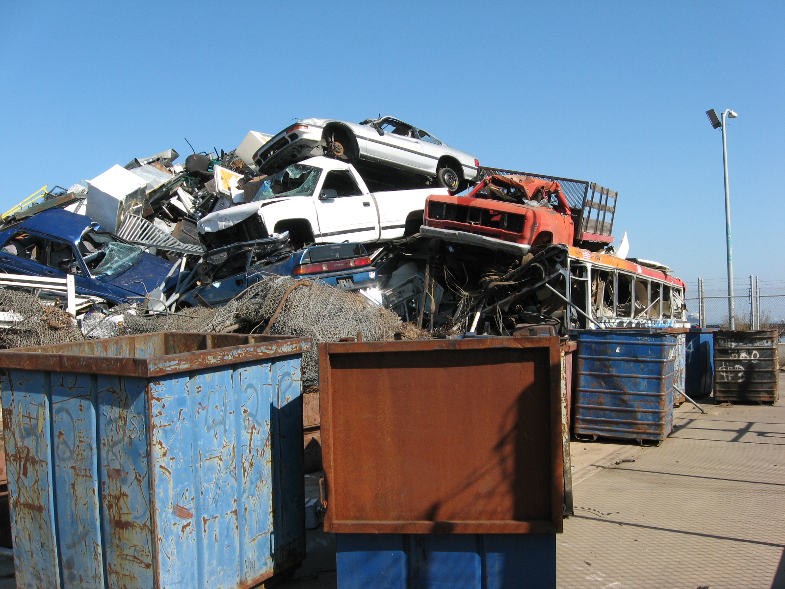 A New Flyer bus that has already been retired and partially scrapped in Sims Metal underneath all that junked cars.